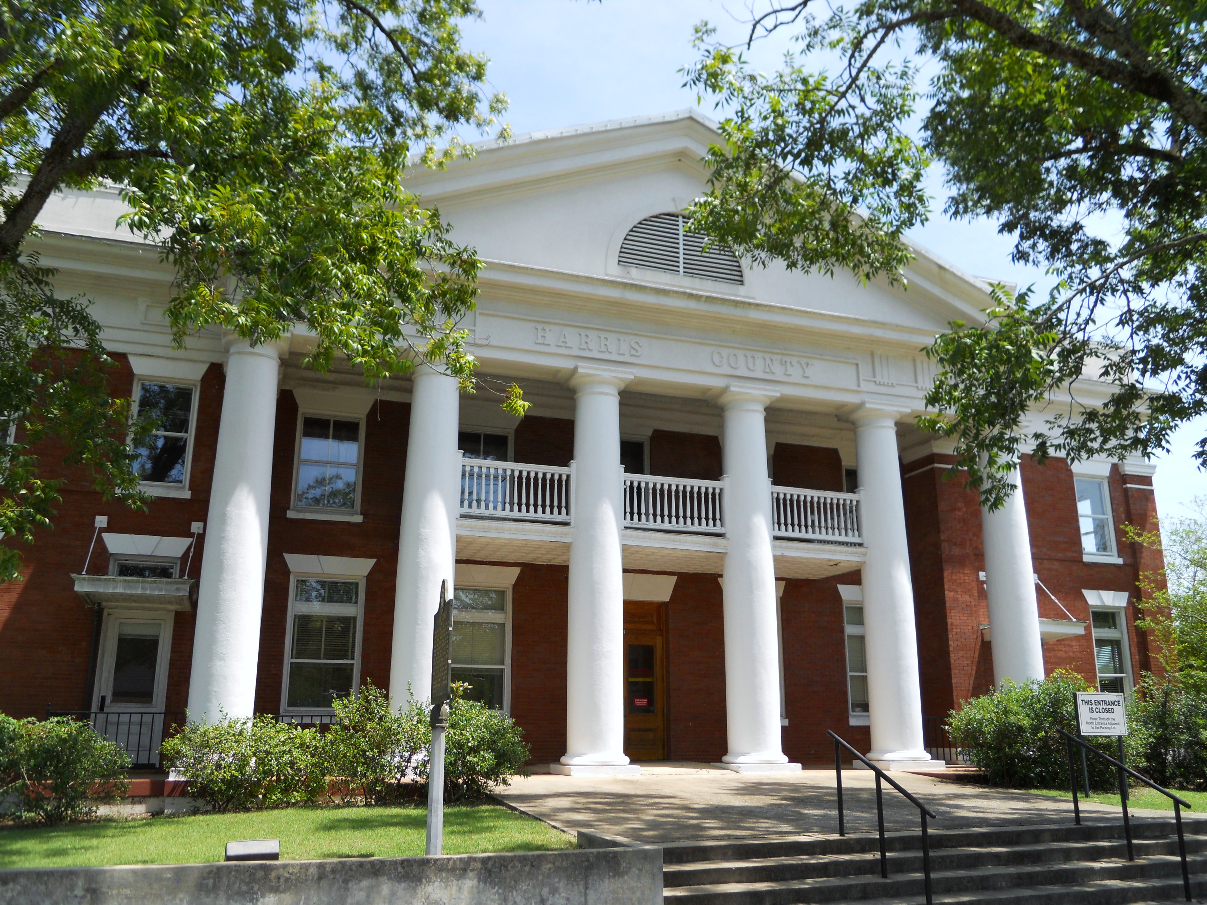 This is a photograph of the Harris County Courthouse located in Hamilton, Georgia